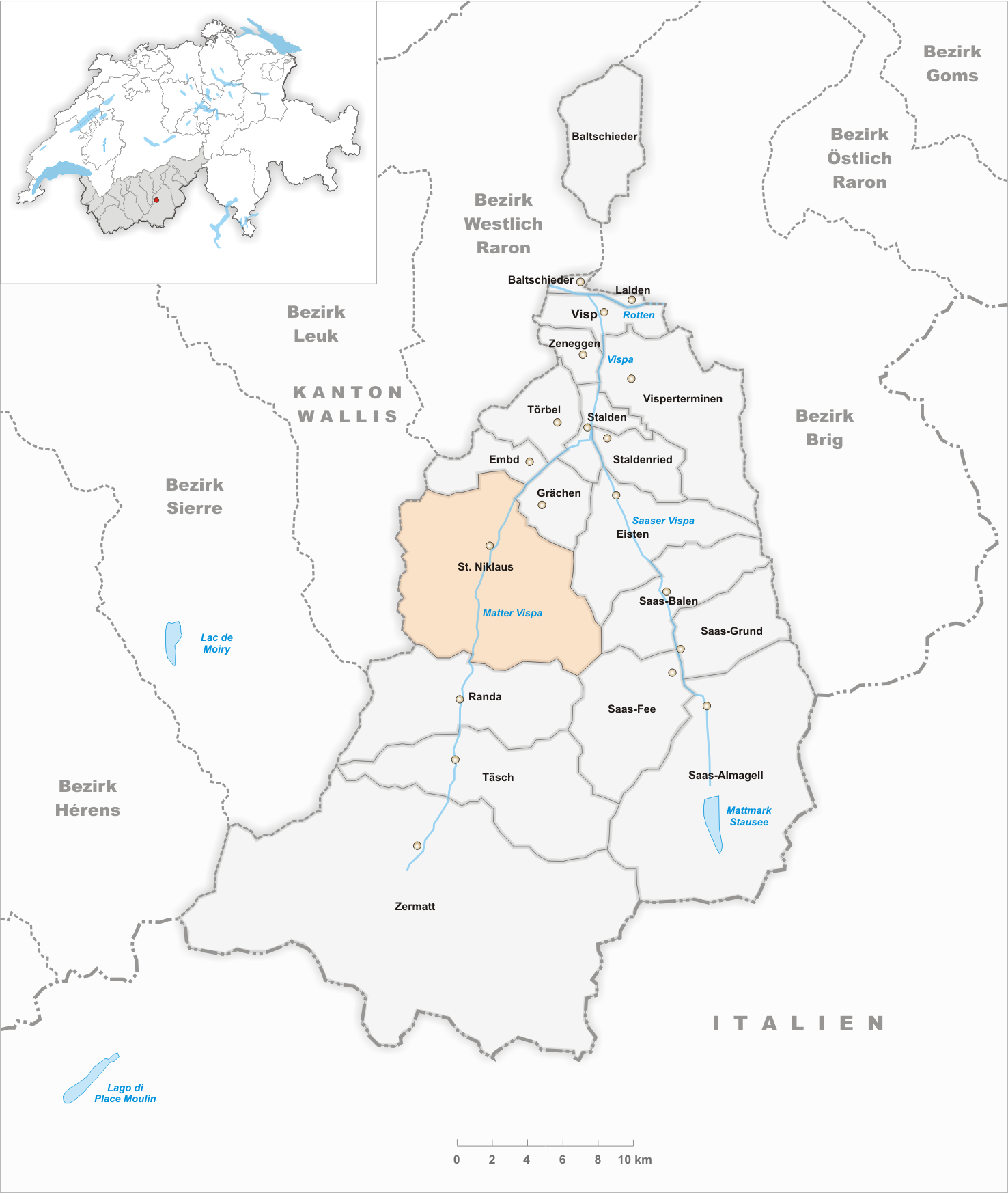 Municipality St. Niklaus